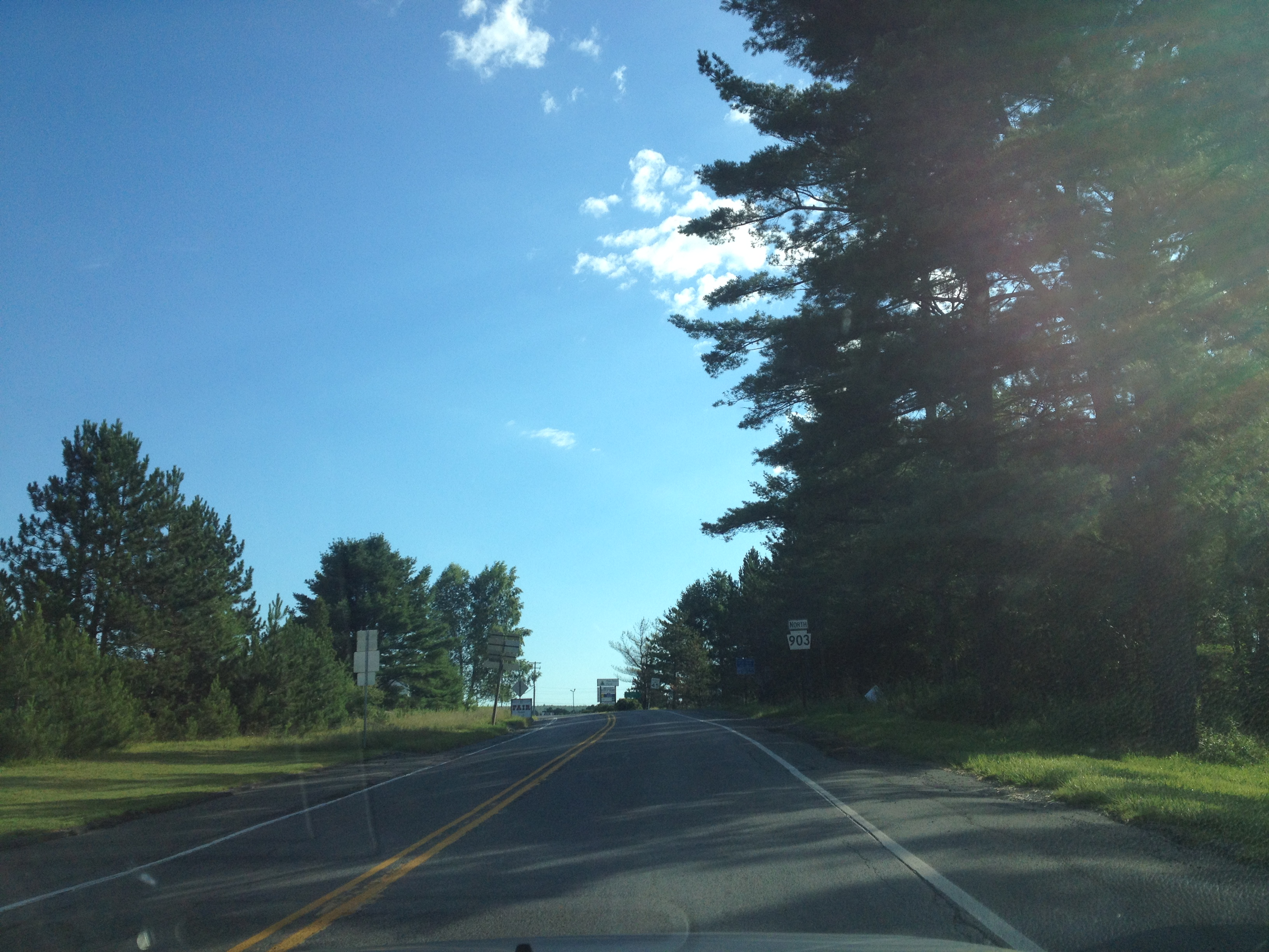 Northbound Pennsylvania Route 903 past the intersection with Pennsylvania Route 534 in Kidder Township.